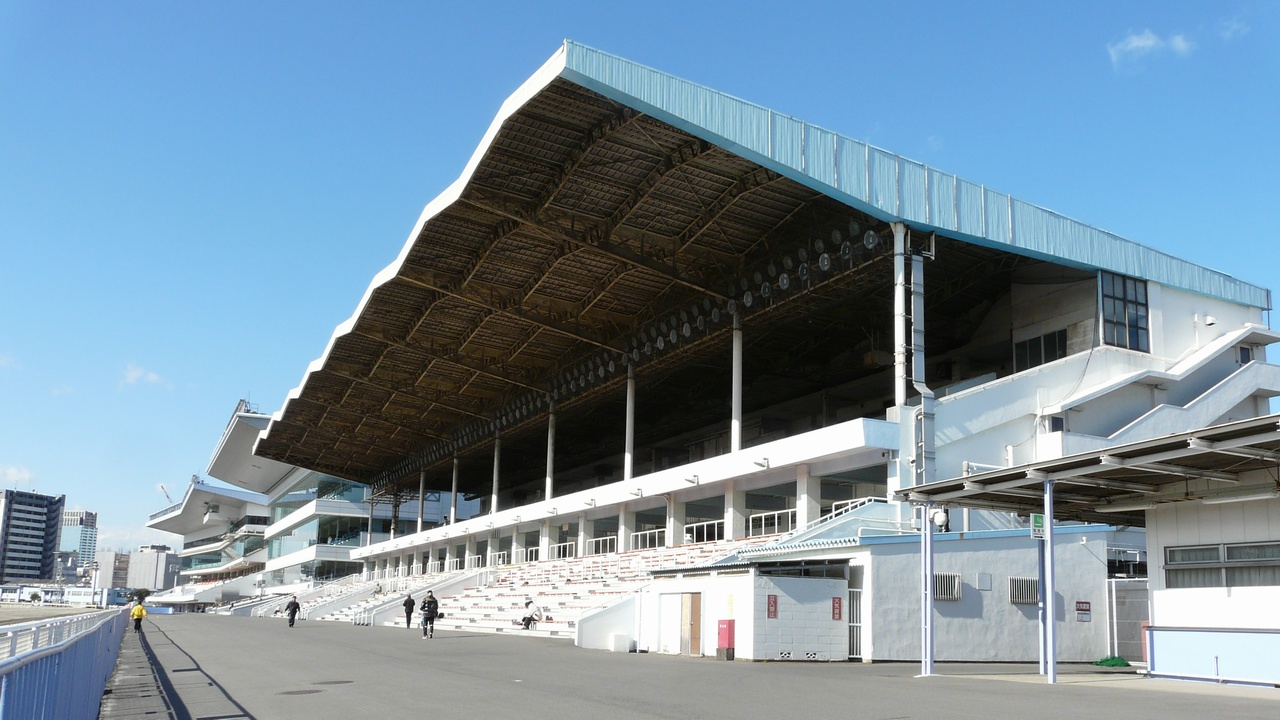 Kawasaki_Racecourse_008